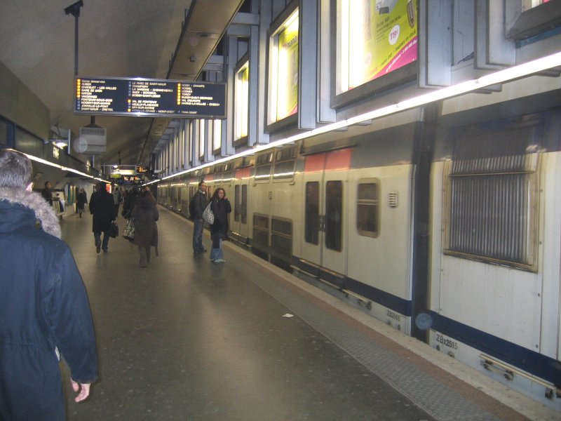 The RER A at Charles de Gaulle - Etoile. (Author: Metropolitan)